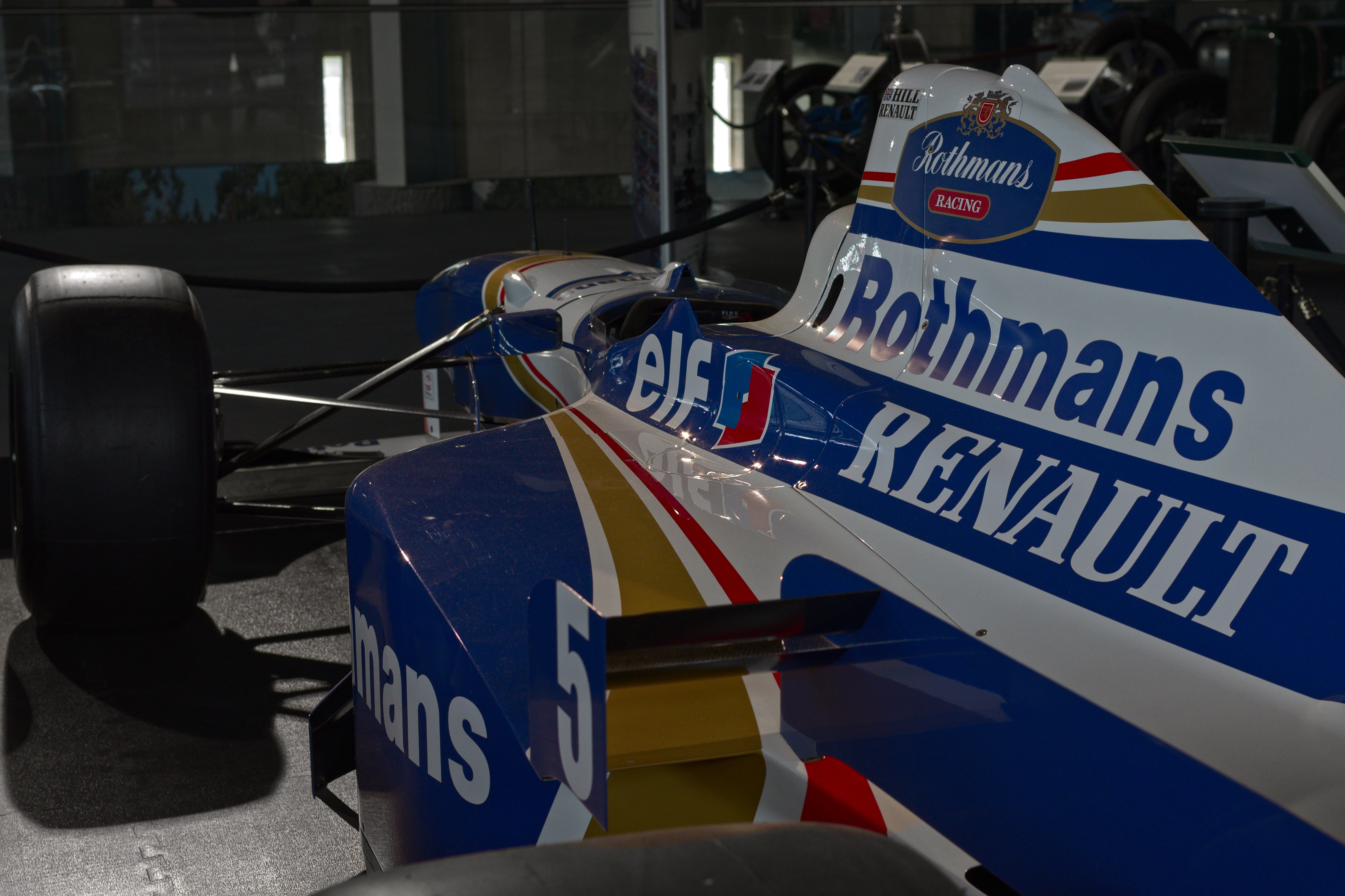 Williams FW18